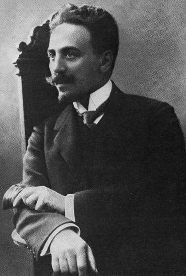 Image scanned by me. Fair use rationale: Historical photo; about 100 years old. For educational purposes. Low resolution image.